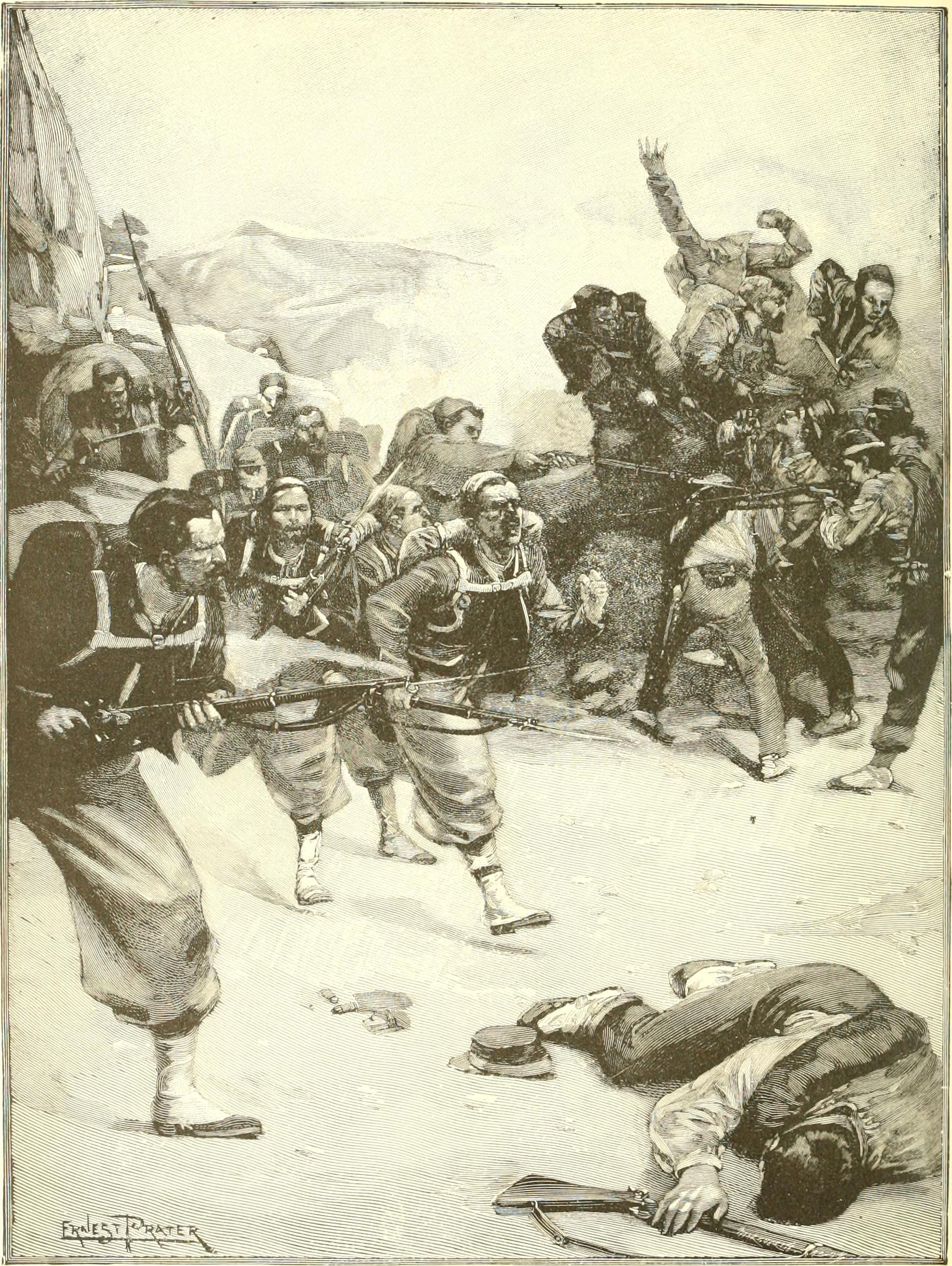 Title: From 1800 to 1900. The wonderful story of the century; its progress and achievements .. Year: 1899 (1890s) Authors: Morris, Charles, 1833-1922 Subjects: Nineteenth century Publisher: Chicago, Ill., A.B. Kuhlman Company Text Appearing Before Image: ' Text Appearing After Image: THE ZOUAVES CHARGING THE BARRICADES AT MENTANA In 1867 Garibaldi made a final effort to take the city of Rome, it being one of the cherished objects of his life to make it the capital of United Italy. He would have succeeded in capturing the famous city had not the French come to the aid of the papal troops. The allied forces were too strong, and he was defeated at Mentana. The illustration shows the ^nch Zouaves in a dashing bayonet charge against the barricades of the revolutionists. GARIBALDI AND THE UNIFICATION OF ITALY aox Neapolitan army would go over to the invaders in a mass had not been realized. The great majority of the troops remained faithful to the flag, so that Garibaldi, although his irregular bands amounted to more than 25,000 men, could not hope to drive away King Francis, or to take the fortresses of Capua and Gaeta, without the help of Sardinia. Against the diplomatic statesman Cavour, who fostered no illusions, and saw the conditions ofaffairs in its true light